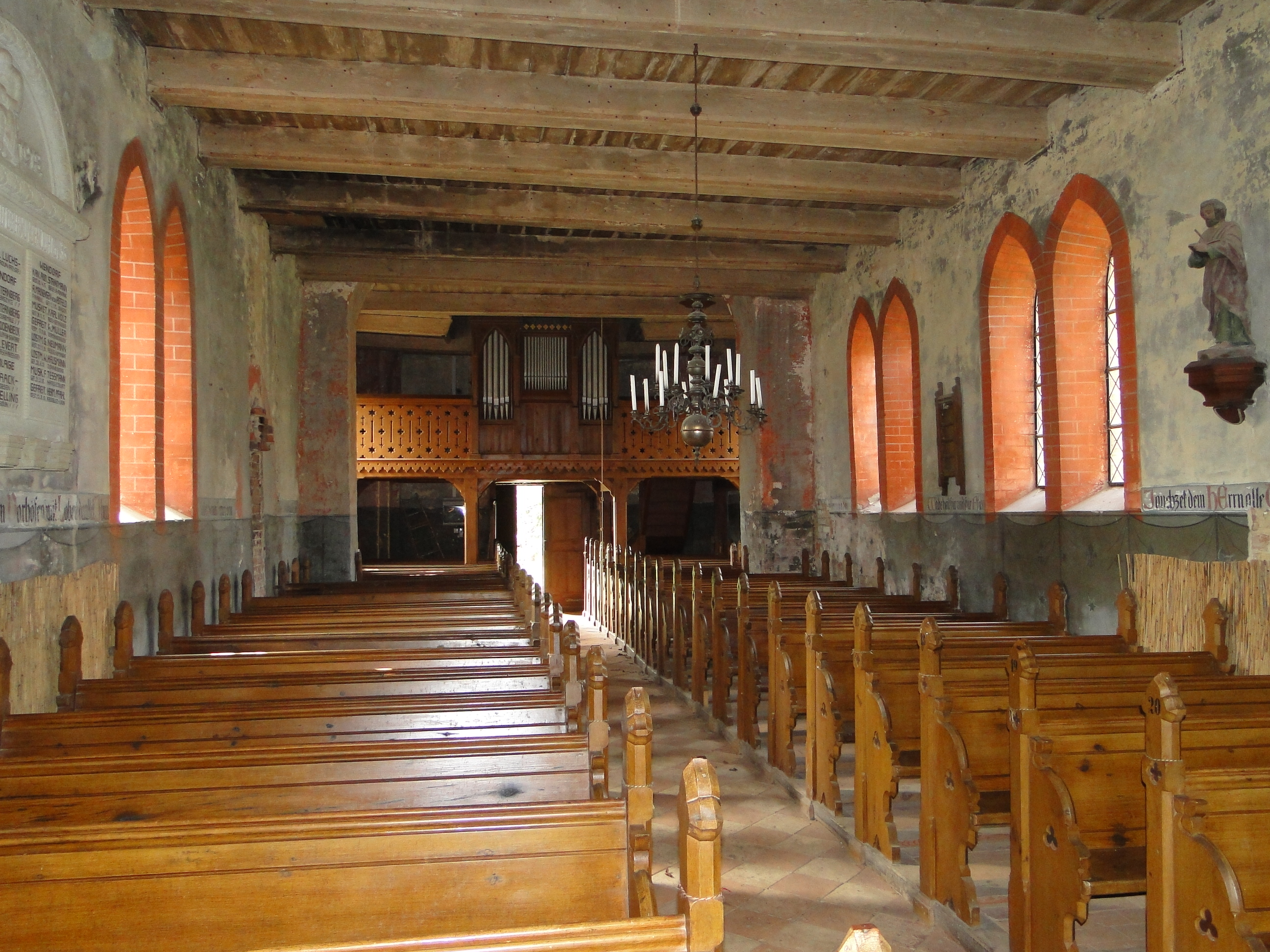 Church in Holzendorf (near Sternberg), distrct Ludwigslust-Parchim, Mecklenburg-Vorpommern, Germany